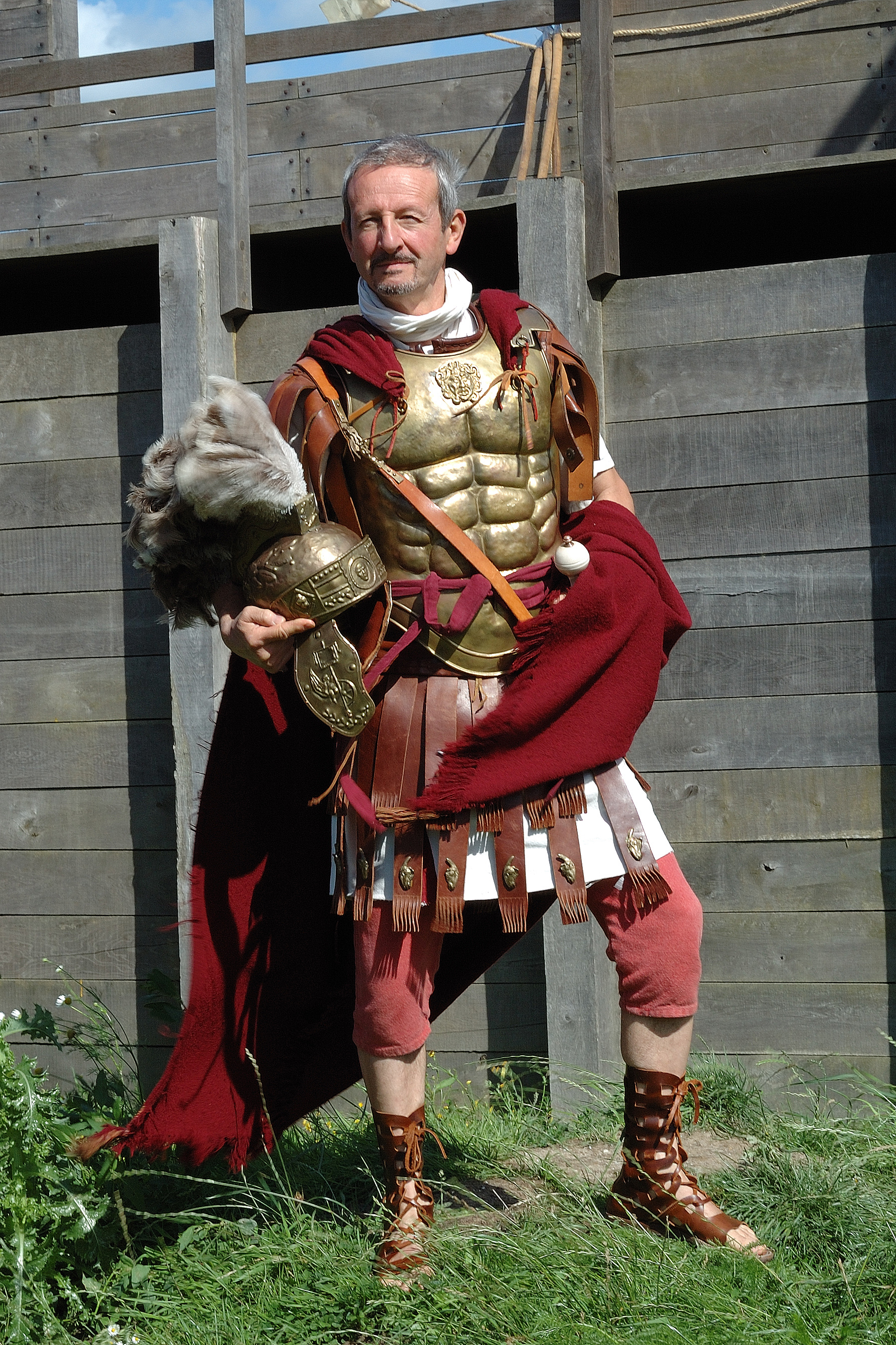 Modern re-enactor wearing replica equipment of a Roman military tribune of the imperial era. Note plumed, engraved helmet, bronze muscled cuirass, red mantle, red sash tied over cuirass indicating knightly rank, pteruges. The imperial tribune's equipment was virtually unchanged since Republican times (see above).